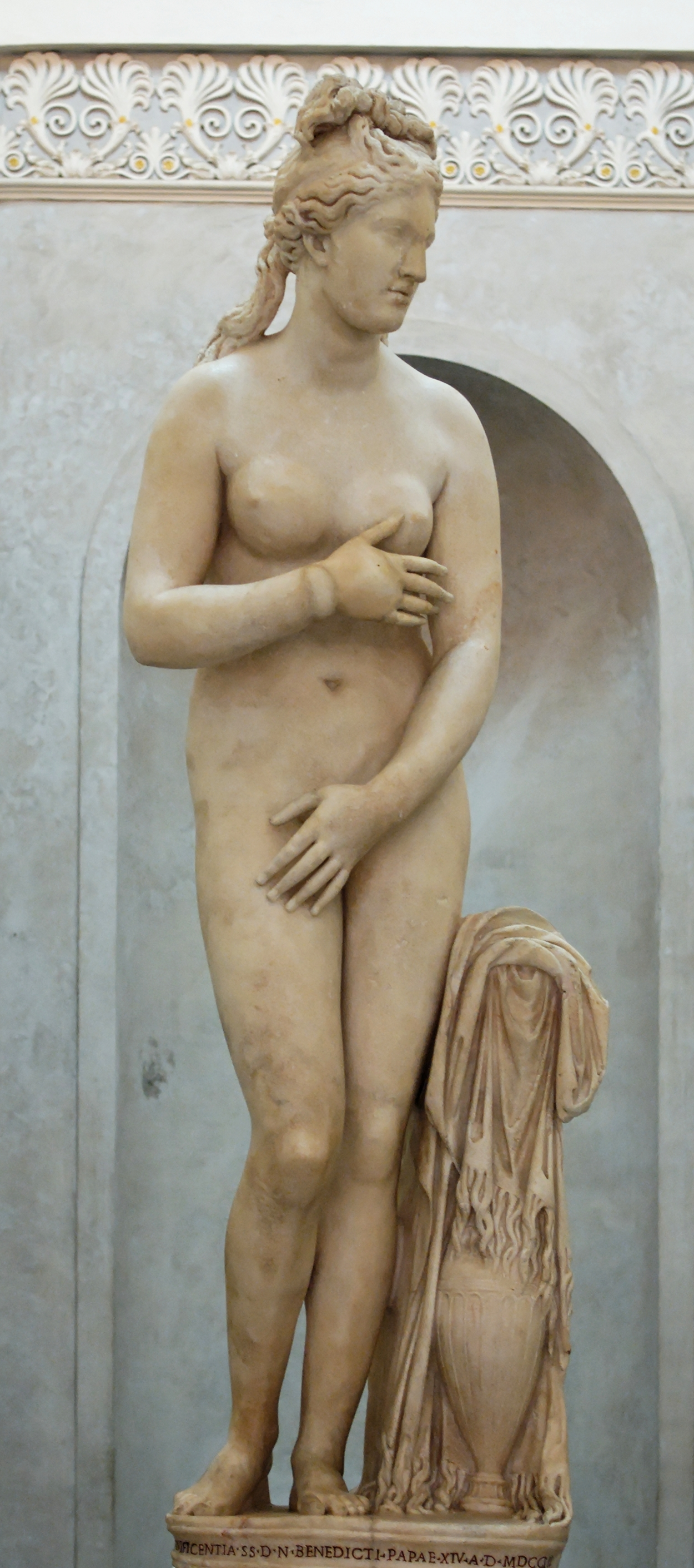 So-called “Capitoline Venus”, one of the best preserved copies of Praxiteles' Cnidian Venus (4th century BC).